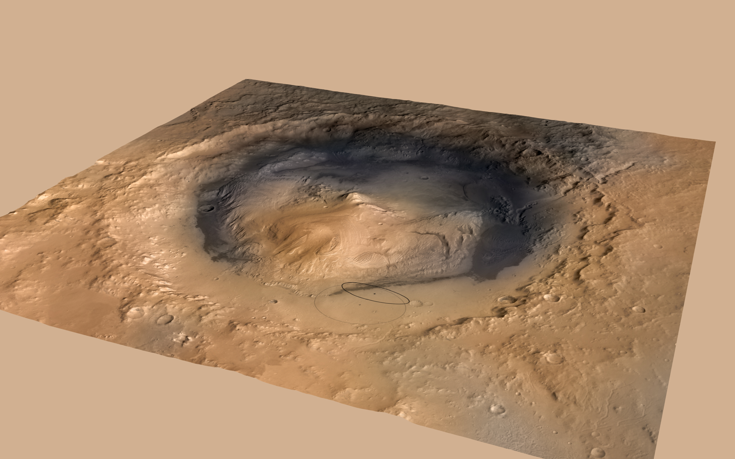 Altered Landing Target in Gale Crater, Mars A June 2012 revision of the landing target area for Curiosity, the big rover of NASA's Mars Science Laboratory mission, reduces the area's size. It also puts the center of the landing area closer to Mount Sharp, which bears geological layers that are the mission's prime destination. The larger ellipse in this image, about 12.4 miles (20 kilometers) by 15.5 miles (25 kilometers) shows what the target area was prior to revision. The smaller one, about 12 miles by 4 miles (20 by 7 kilometers), indicates the revised target area.